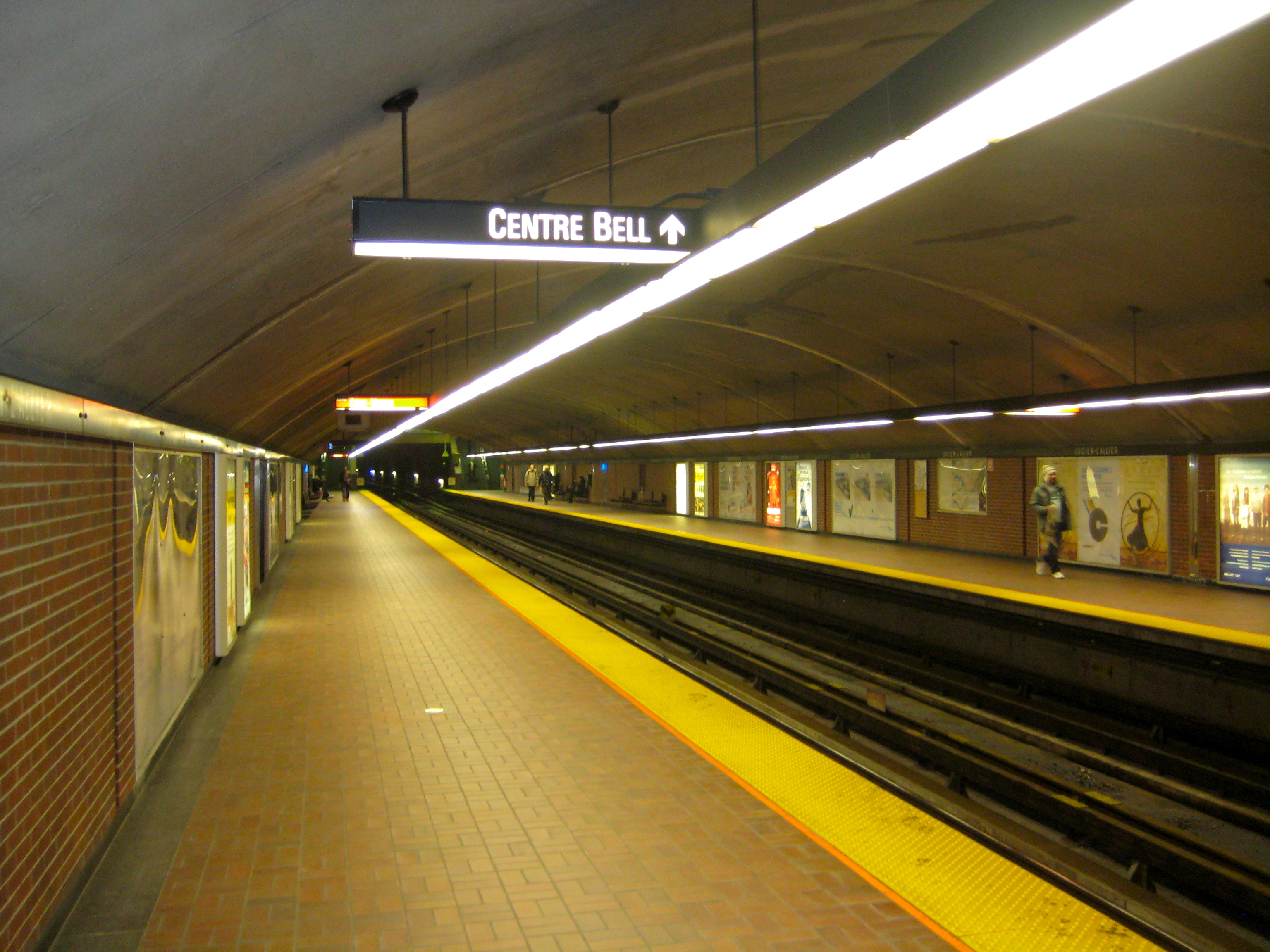 Lucien-L'Allier Metro station platform.